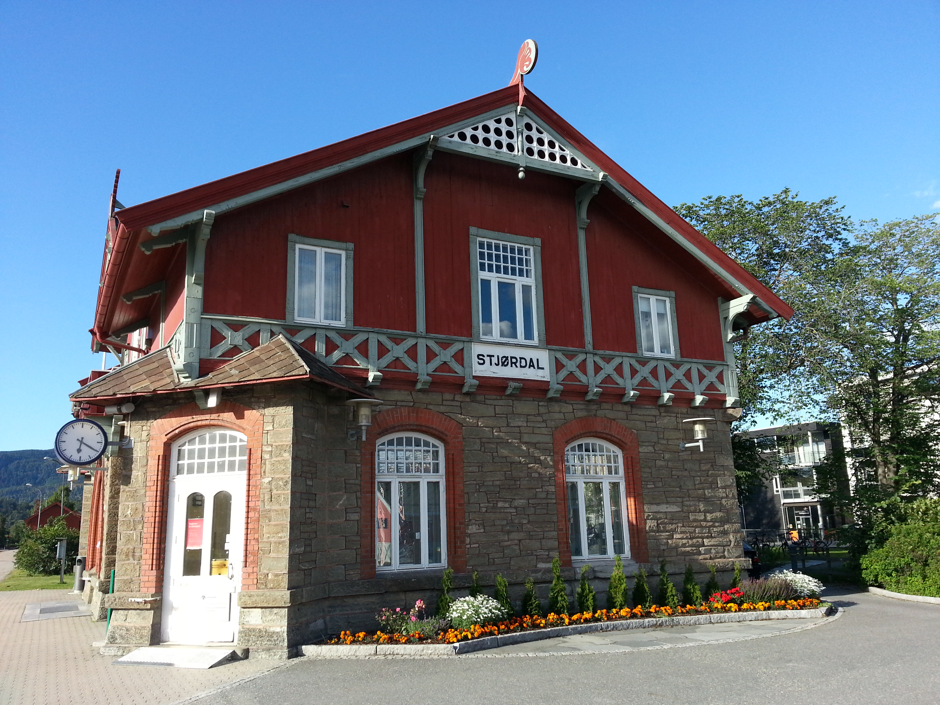 Main building of railroad station Stjordal (near Trondheim Airport - Norway)